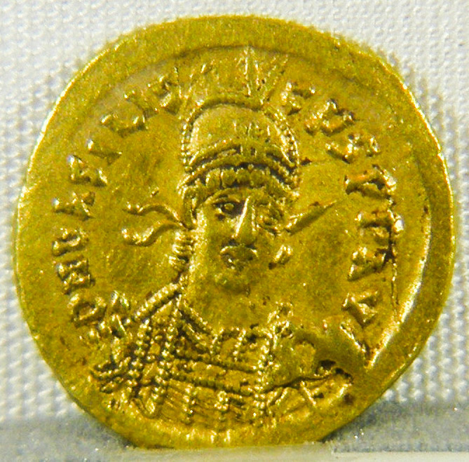 Coin of Basiliscus